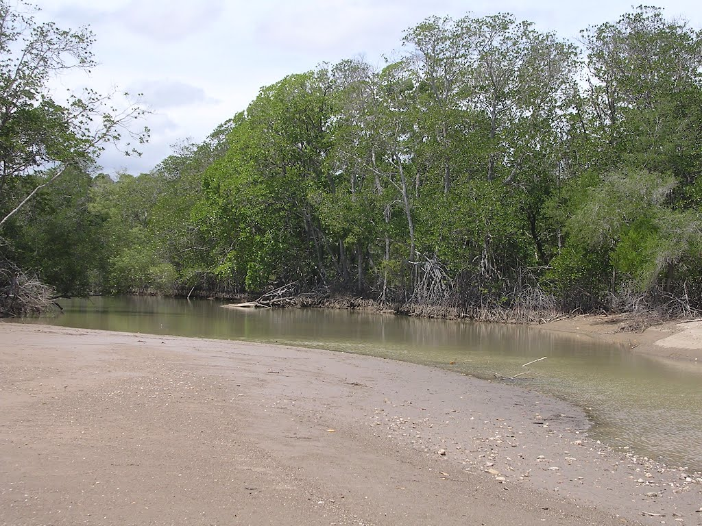 Mangrove vegetation at complex estuary (crocodile infested eastern lagoon) of Raumoko River, Daudere, Lautem, Timor-Leste